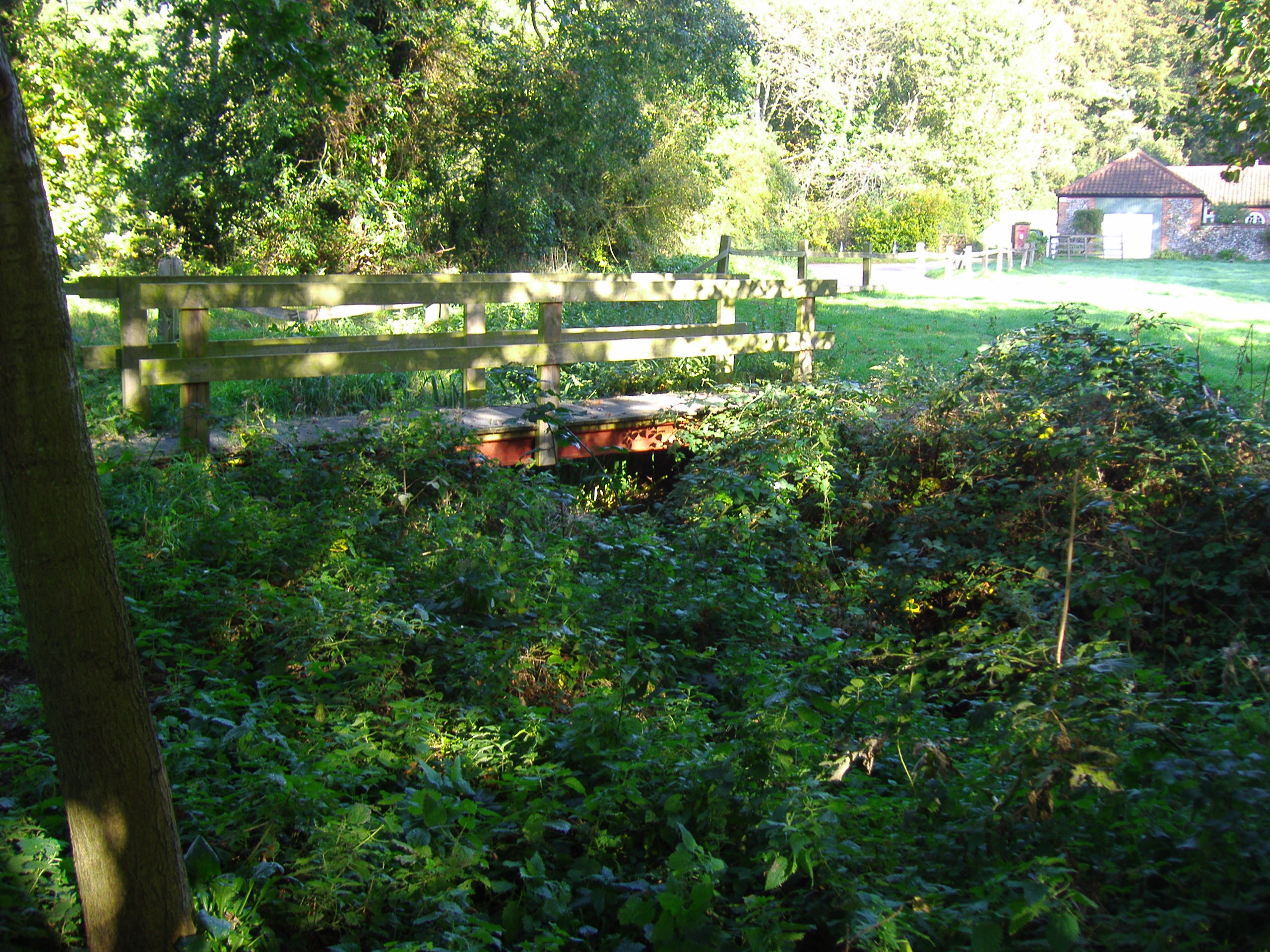 A Digital Photograph of the River Mun at Frogshall Taken on the 5th October 2007